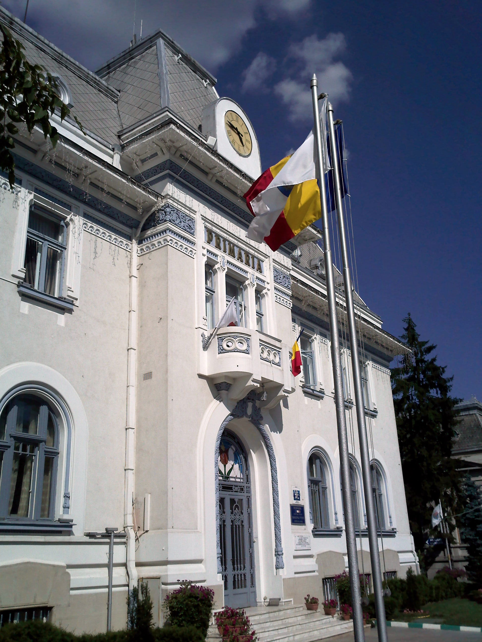 Piteşti City Hall